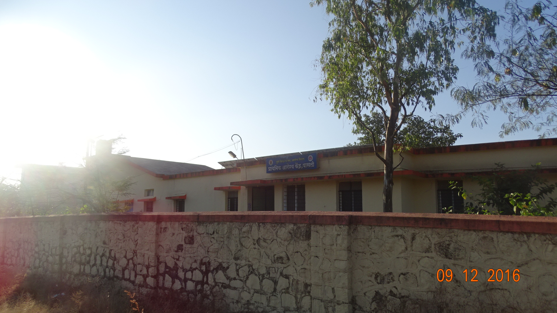 प्राथमिक आरोग्य केंद्र,पासली